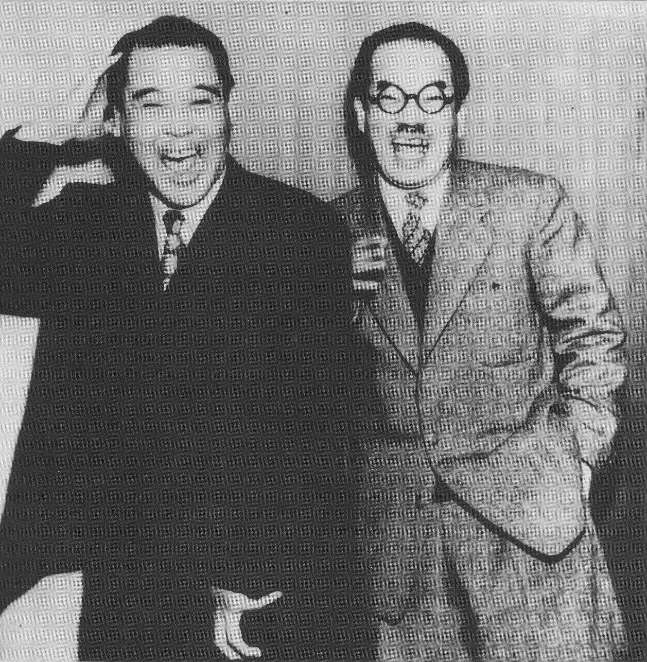 Achako Hanabishi (left) and Entatsu Yokoyama (right) (Legendary Manzai Performer).